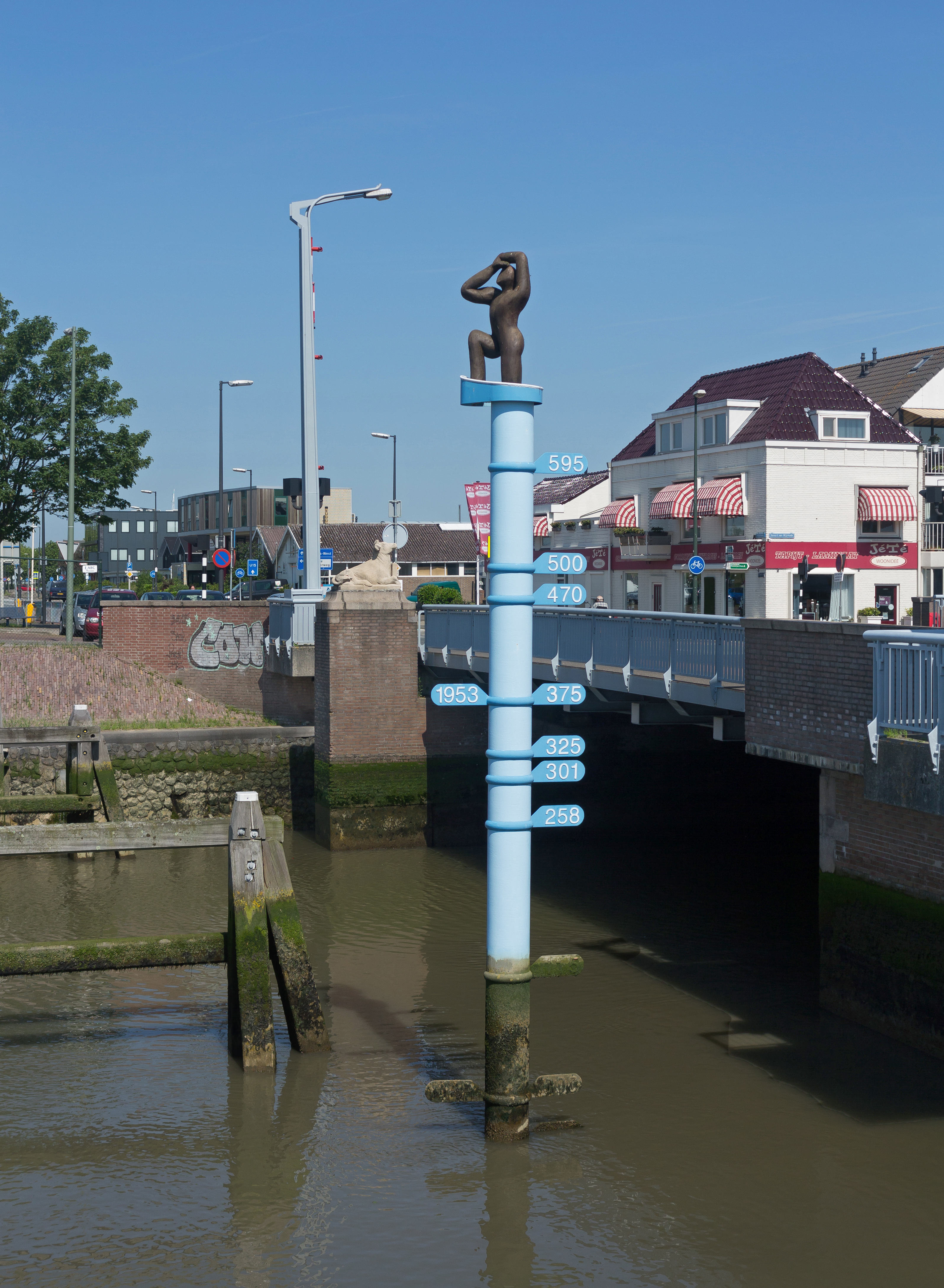 Maassluis, high water mark with sculpture near de Koepaardbrug